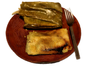 Thumbnail version of a picture of two Oaxaca-style tamales on a wooden plate, with the white background removed for infobox use.